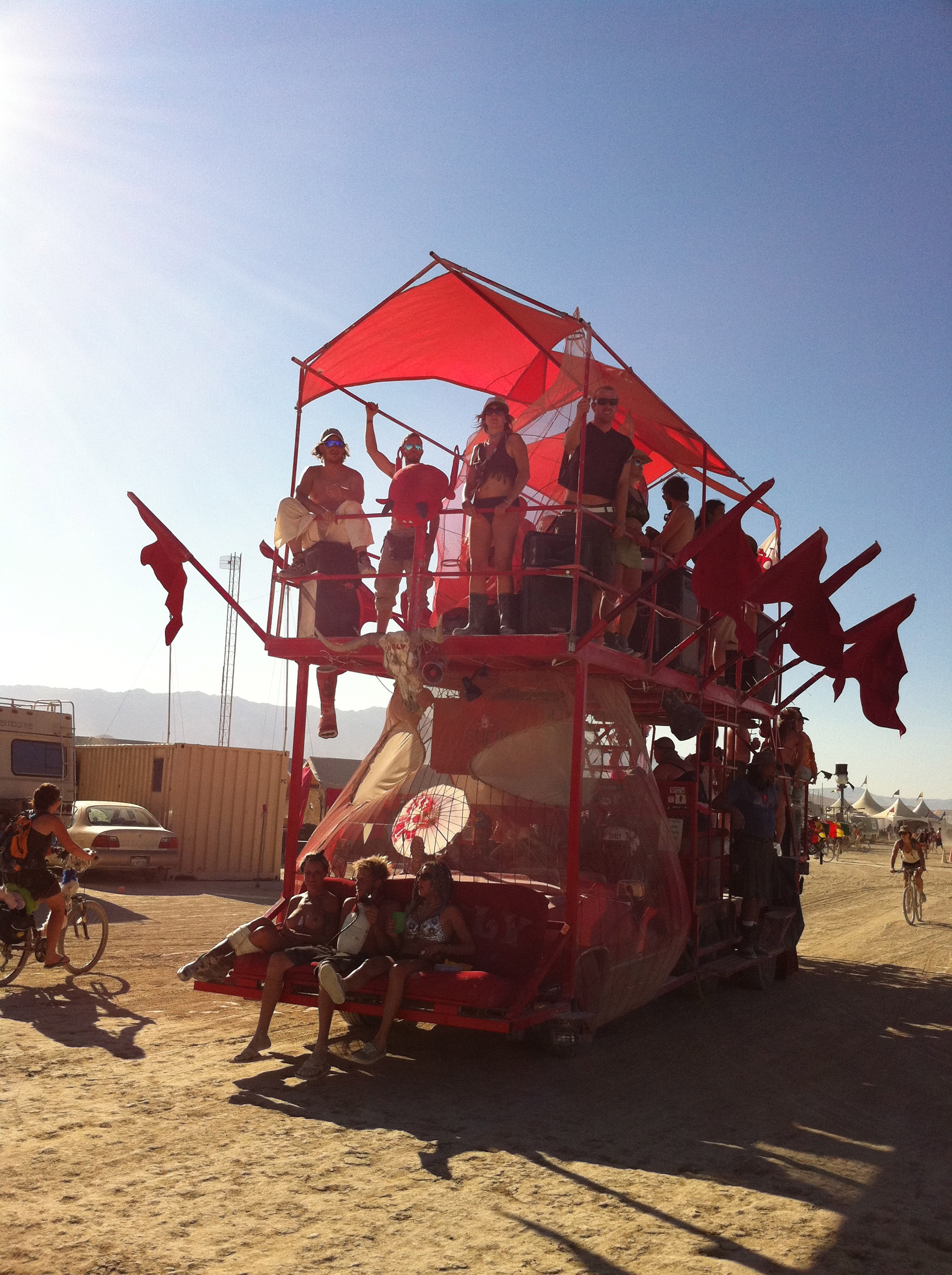 An art car at Burning Man 2011